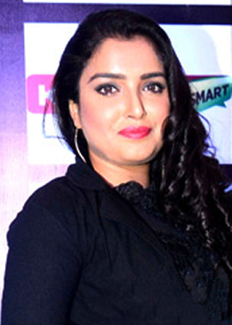 Dinesh Lal Yadav at Press Conference of Celebrity Cricket League 2016